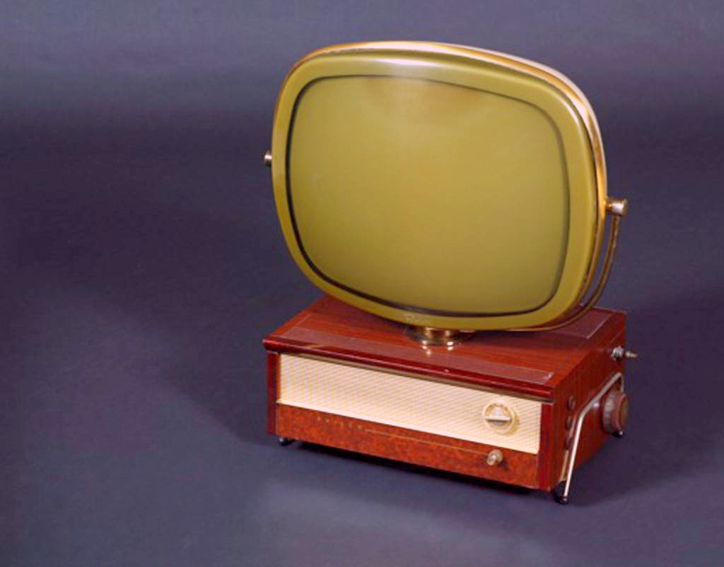 A Philco Predicta television in the permanent collection of The Children’s Museum of Indianapolis